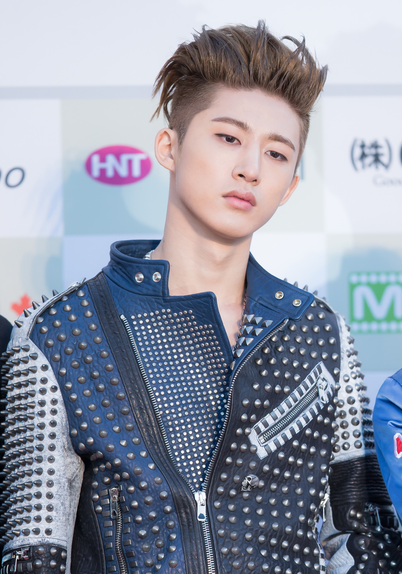 iKON's B.I on the 2016 Gaon Chart K-pop Awards red carpet.